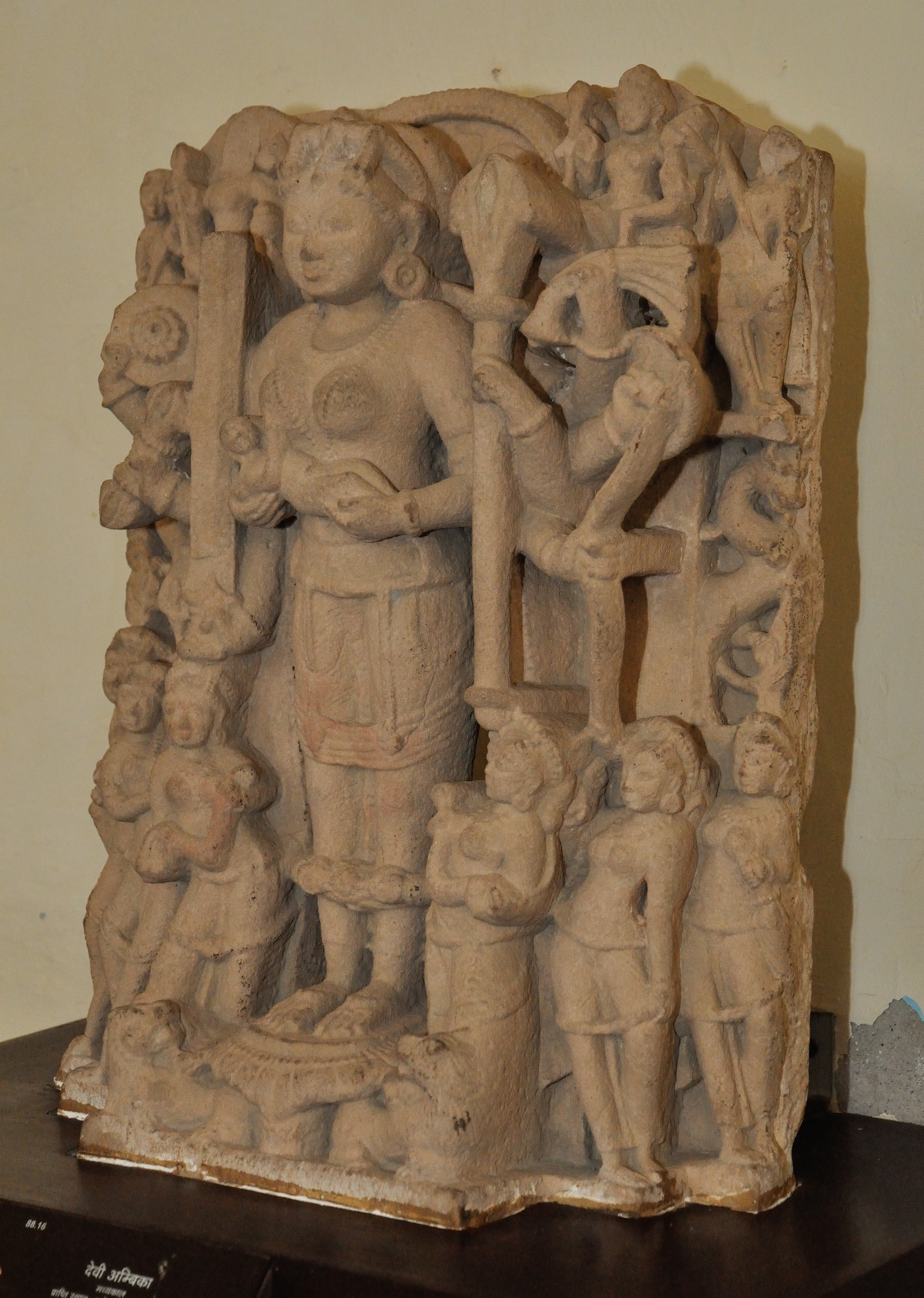 This artefact resides at the Government Museum, (hi: Rashtriya Sangrahalaya) formerly The Curzon Museum of Archaeology, Museum Road or Murari Lal Rajpal road, Dampier Nagar, Mathura, Uttar Pradesh, India. This museum is administrating by the State Government of Uttar Pradesh of India.